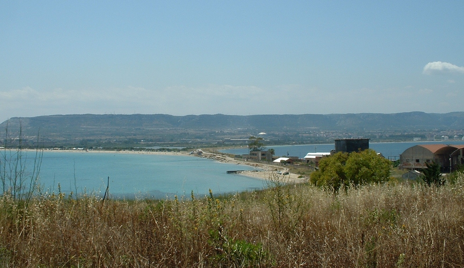 View of isthmus connecting the Magnisi Paeninsula to Marina di Priolo, Priolo Gargallo and Climiti mounts from Magnisi paeninsula, in Sicily.